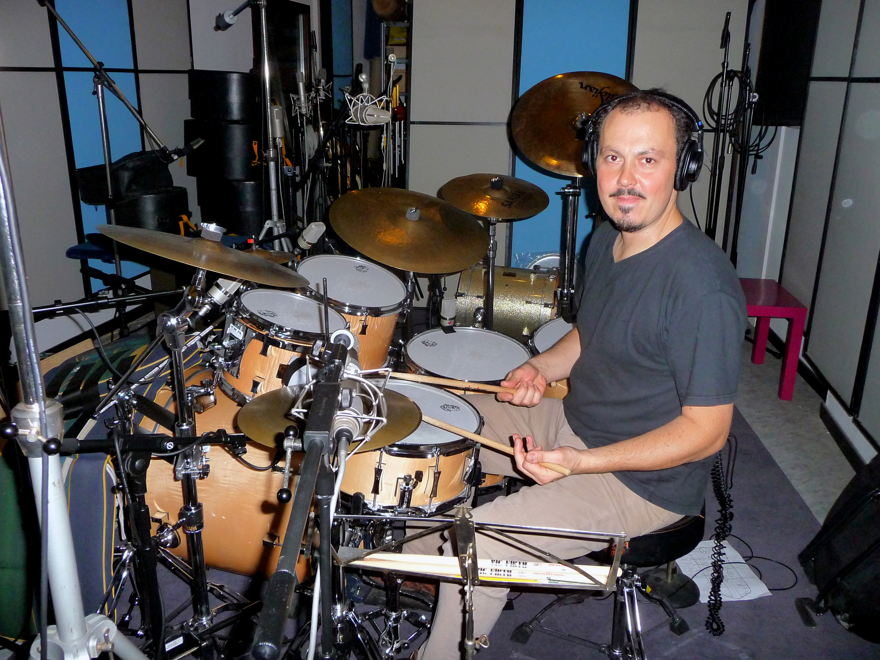 Guido May in the studio recording the drums for the CD Pee Wee Ellis - Tenoration